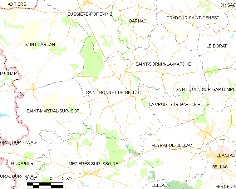 Map of French municipality Saint-Bonnet-de-Bellac